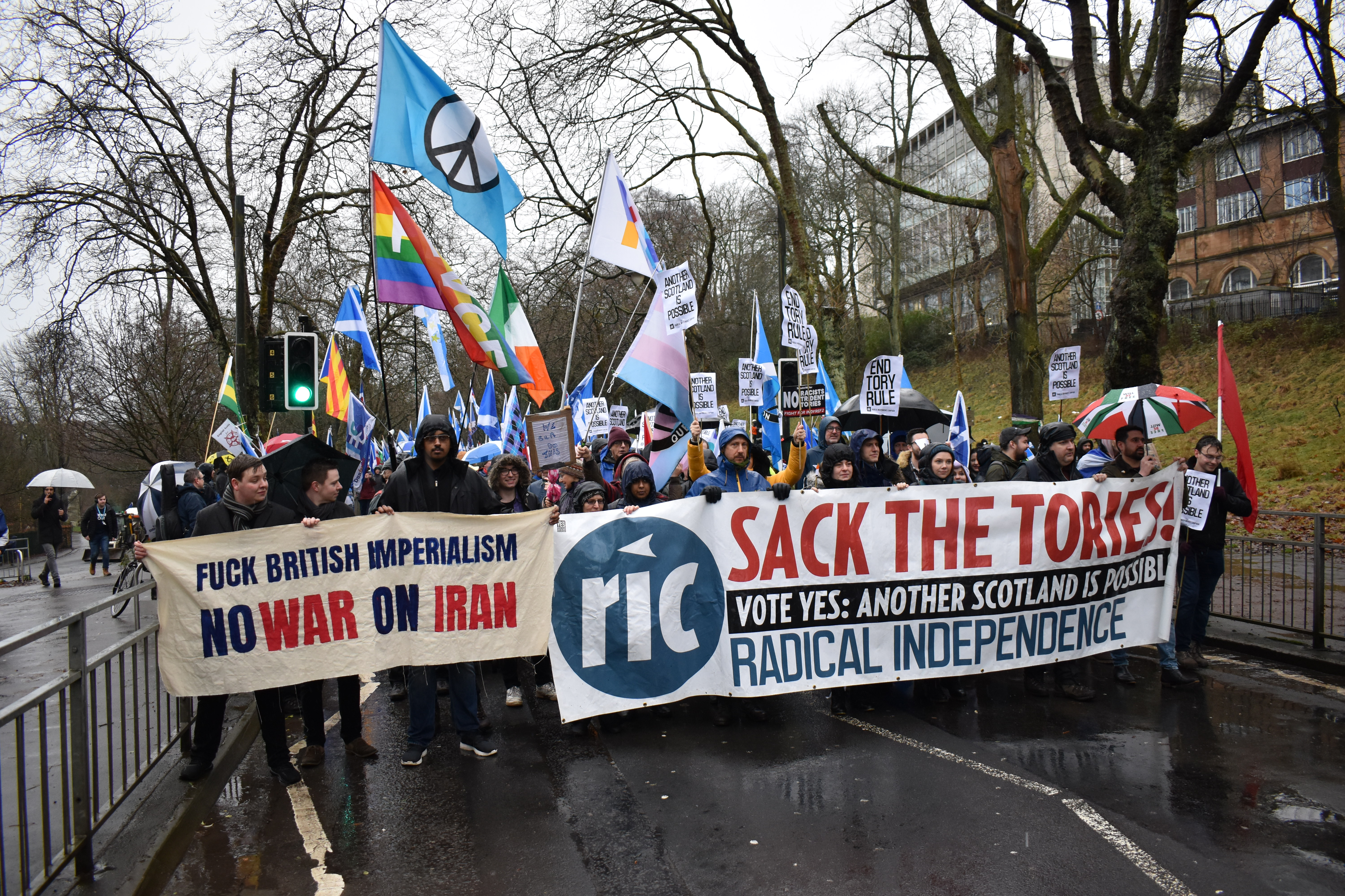 Supporters of the Radical Independence Campaign at a march in Glasgow in support of Scottish independence on 11 January 2020.